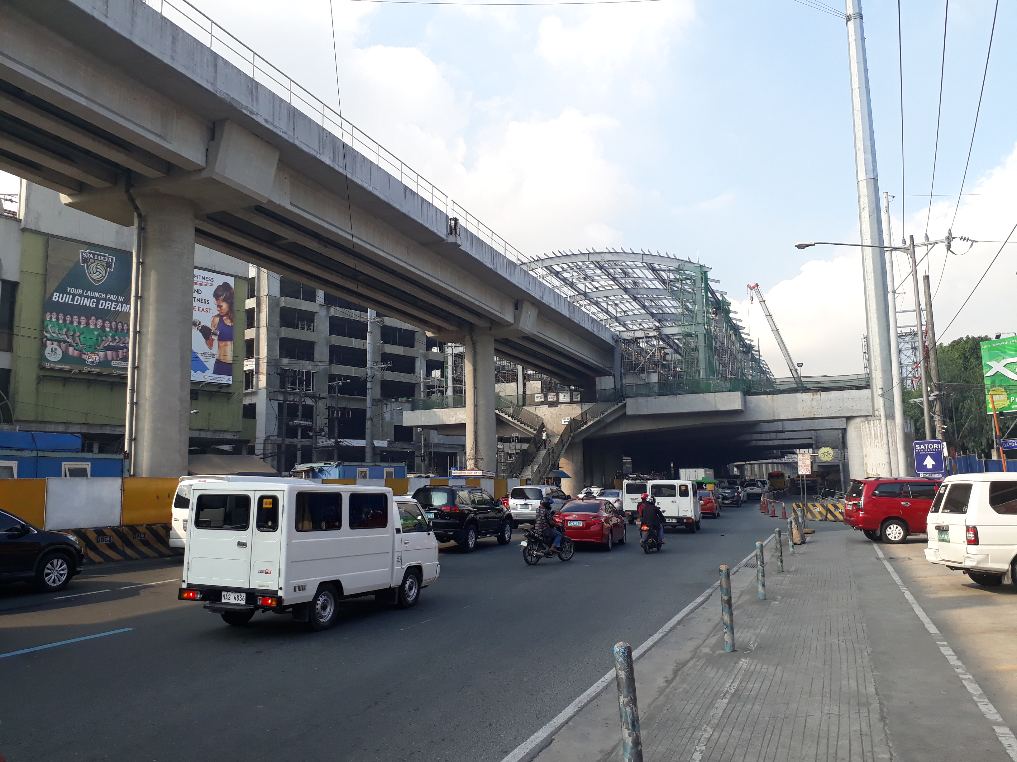 Manila Line 2 Emerald Station construction along Marcos Highway in Pasig City